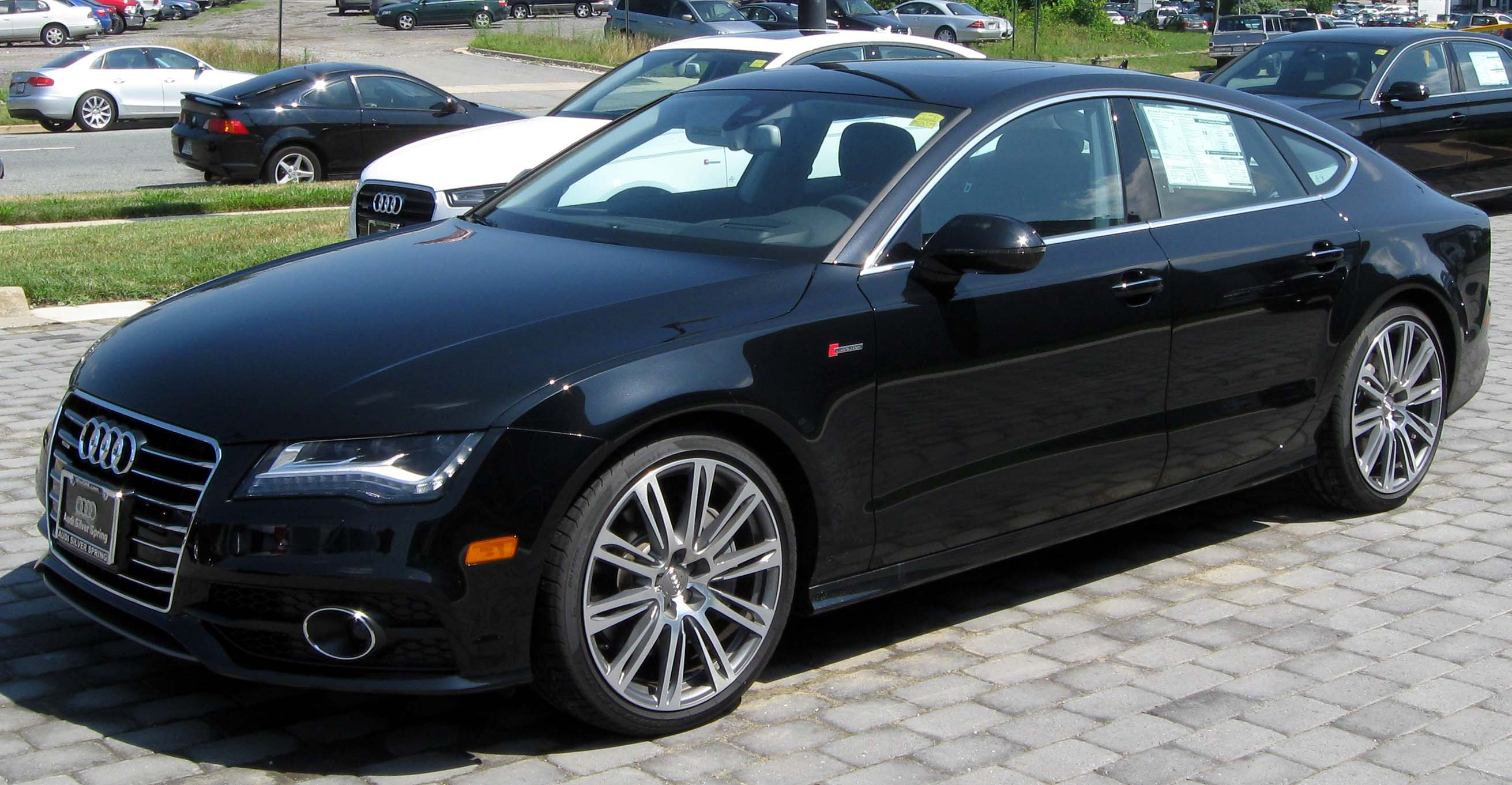 2012 Audi A7 photographed in Silver Spring, Maryland, USA.